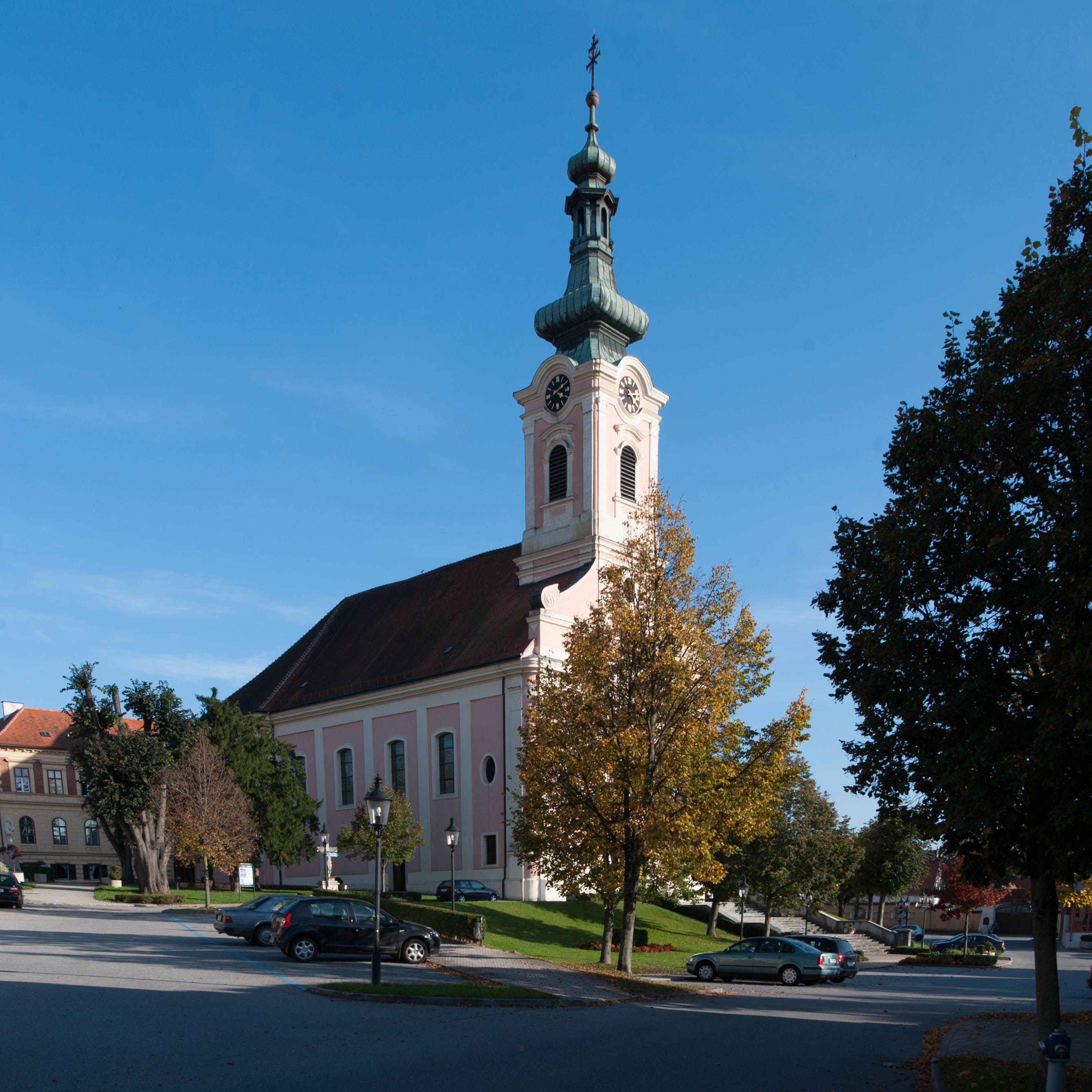 Parish church Saints Peter and Paul, Pinkafeld (taken at Wikipedia-Stammtisch Pinkafeld)